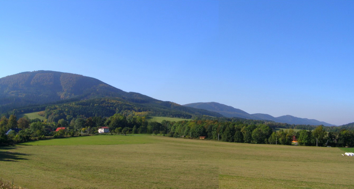 Veřovice hills, view from North